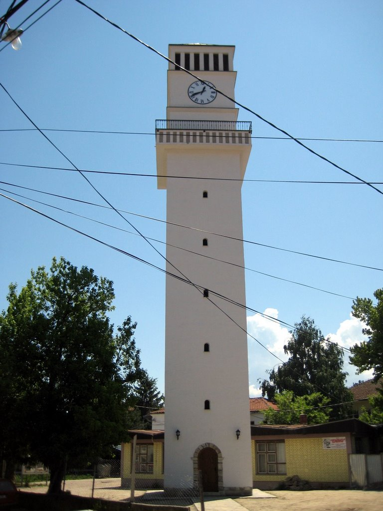 Photos from Arianit Dobroshi for Wikimedia Commons. Original Filename "arianit/Gjakova/IMG_0022.JPG"